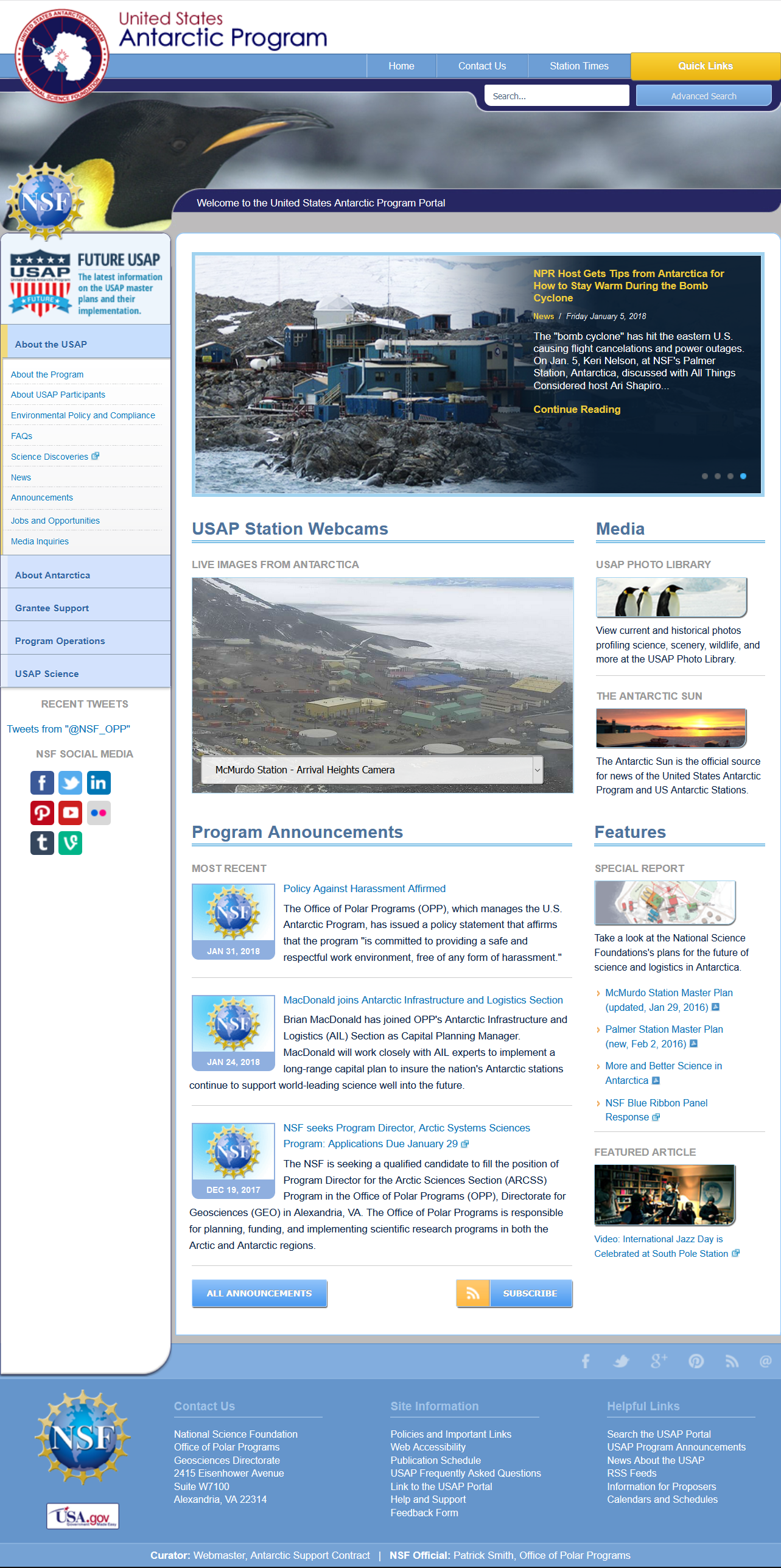 United States Antarctic Program website from 2018 02 22